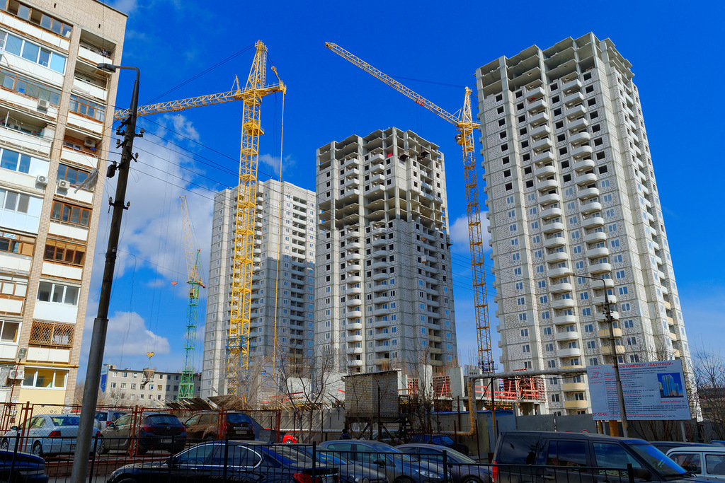 Living complex "Azure" under construction